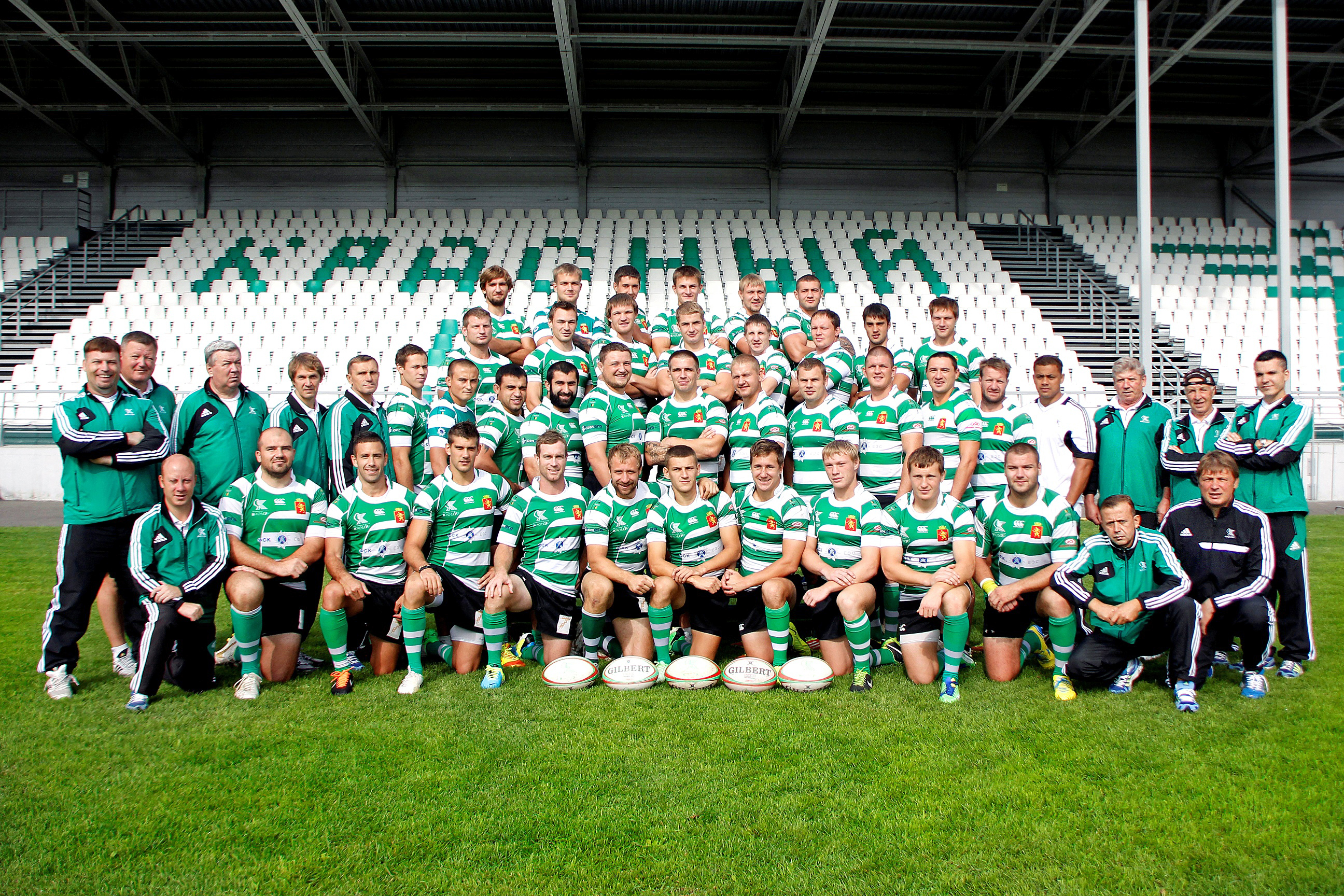 Yar-rugby